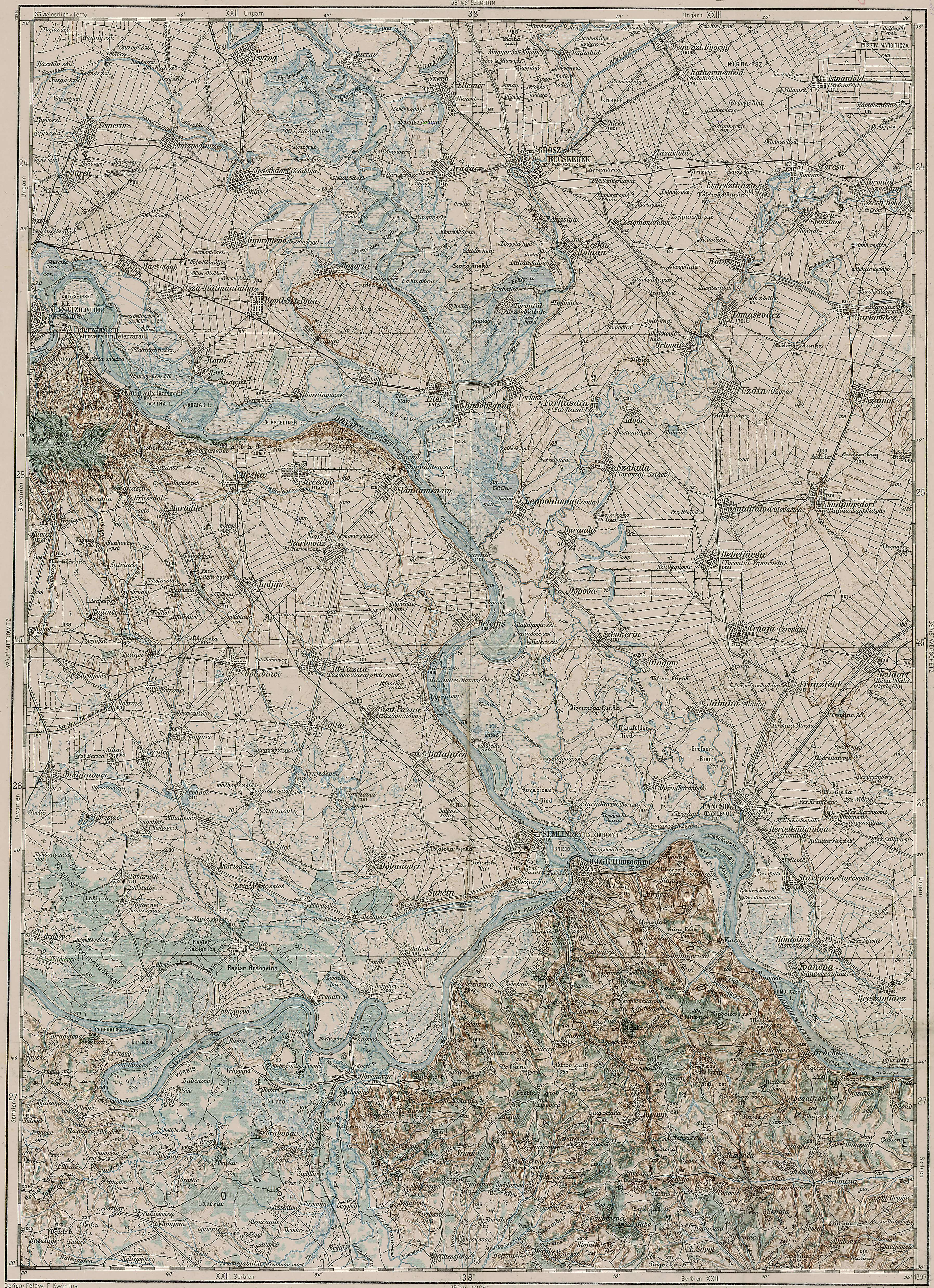 3rd Military Mapping Survey of Austria-Hungary - Belgrád